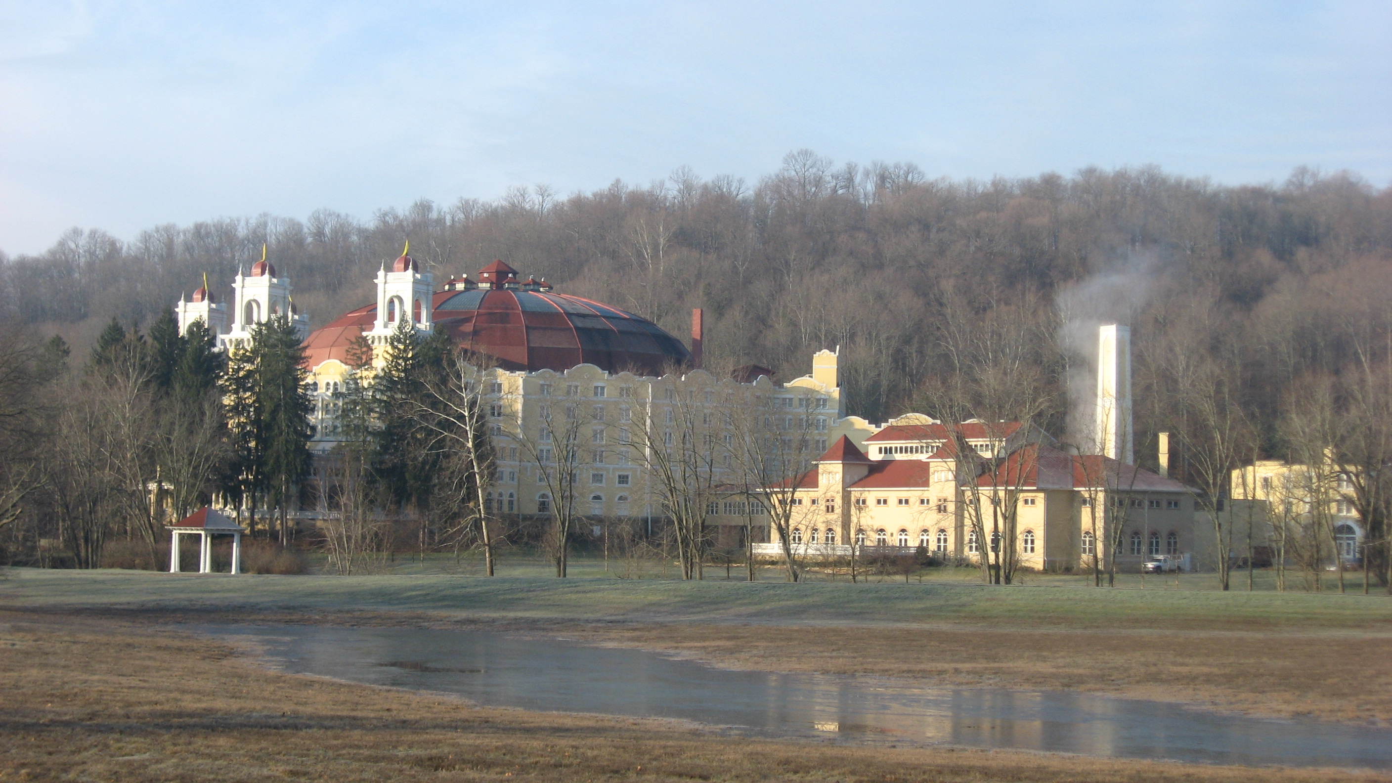 Dawn view of the West Baden Springs Hotel complex, located on the western edge of West Baden Springs, Indiana, United States. Built in 1901, it has been declared a National Historic Landmark.